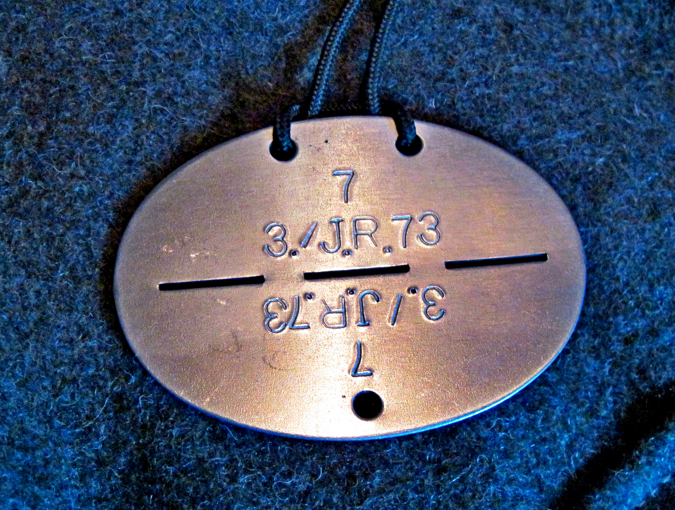 Dog tag for soldier from 3rd company I battalion 73 Infantry Regiment